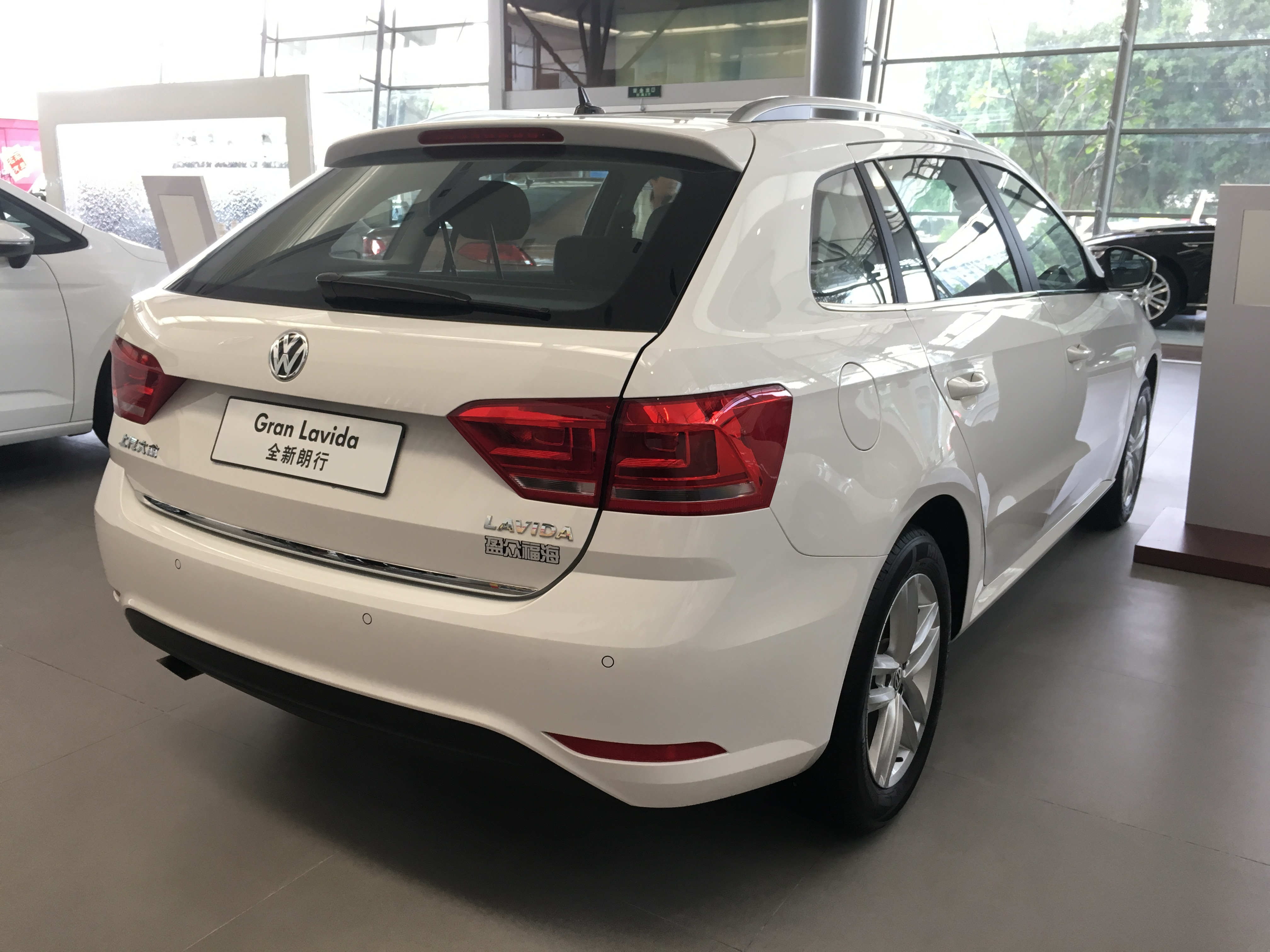 Volkswagen Gran Lavida, Made in Shanghai, P.R. China